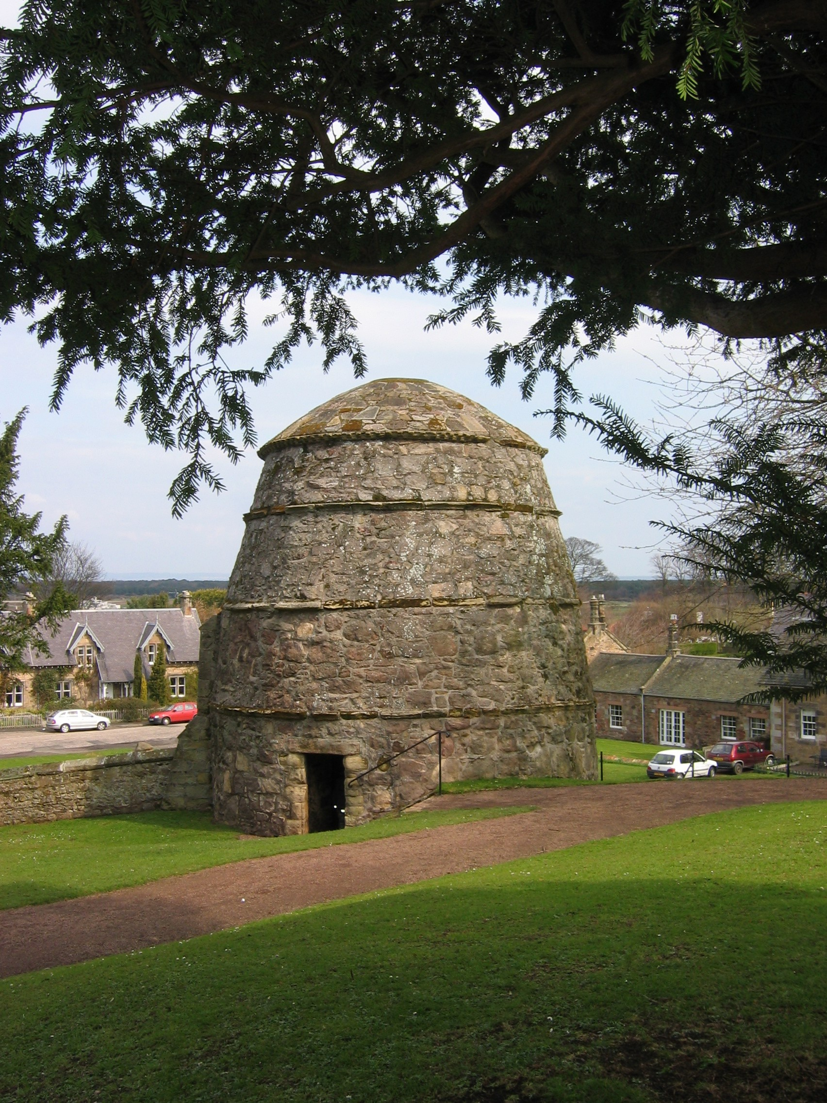 Doocot (dovecot) in grounds of Dirleton Castle, East Lothian, Scotland